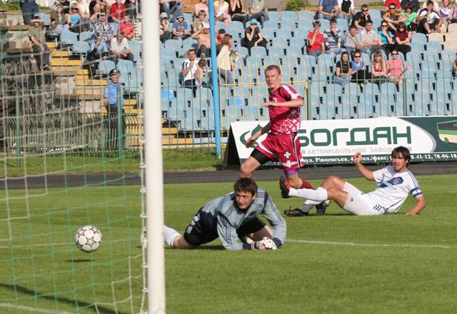 FC Volyn Lutsk vs FC Dynamo-2 Kyiv. June 3, 2008. Karkovskyi scored first goal